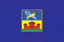 Flag of Kolomatskyj district (Ukraine)